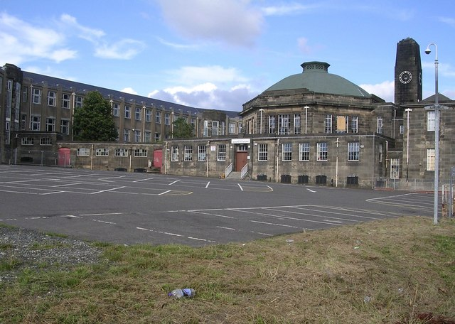 Airdrie Academy. Now abandoned